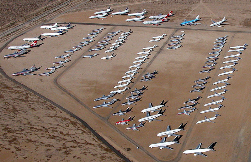 Mojave Airport airliner storage area